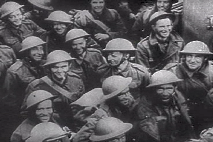 British troops happy to get rescued at Dunkirk (France, 1940). Screenhot taken from the 1943 United States Army propaganda film Divide and Conquer (Why We Fight #3) directed by Frank Capra and partially based on, news archives, animations, restaged scenes and captured propaganda material from both sides.